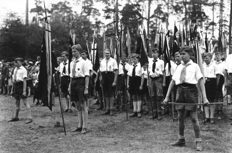 Information added by Wikimedia users.